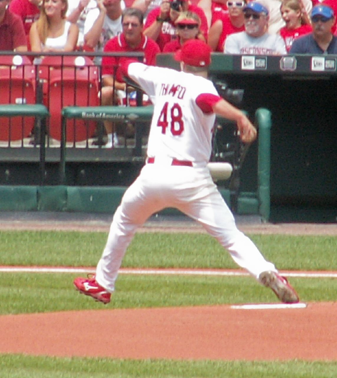 Brad Thompson